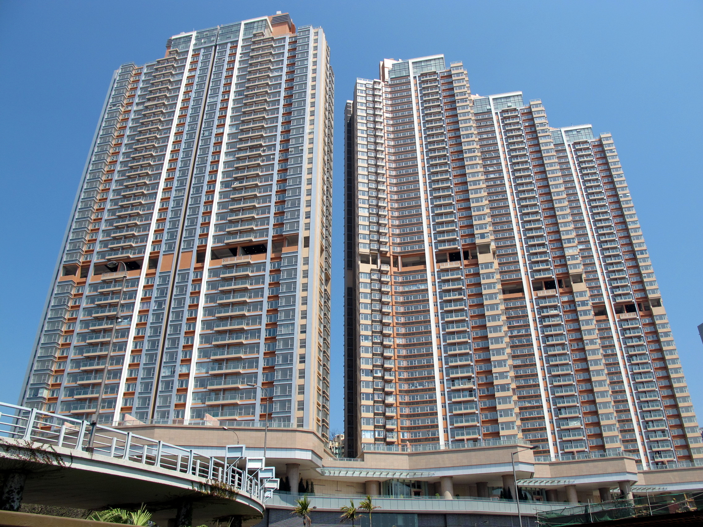 The Latitude 譽·港灣